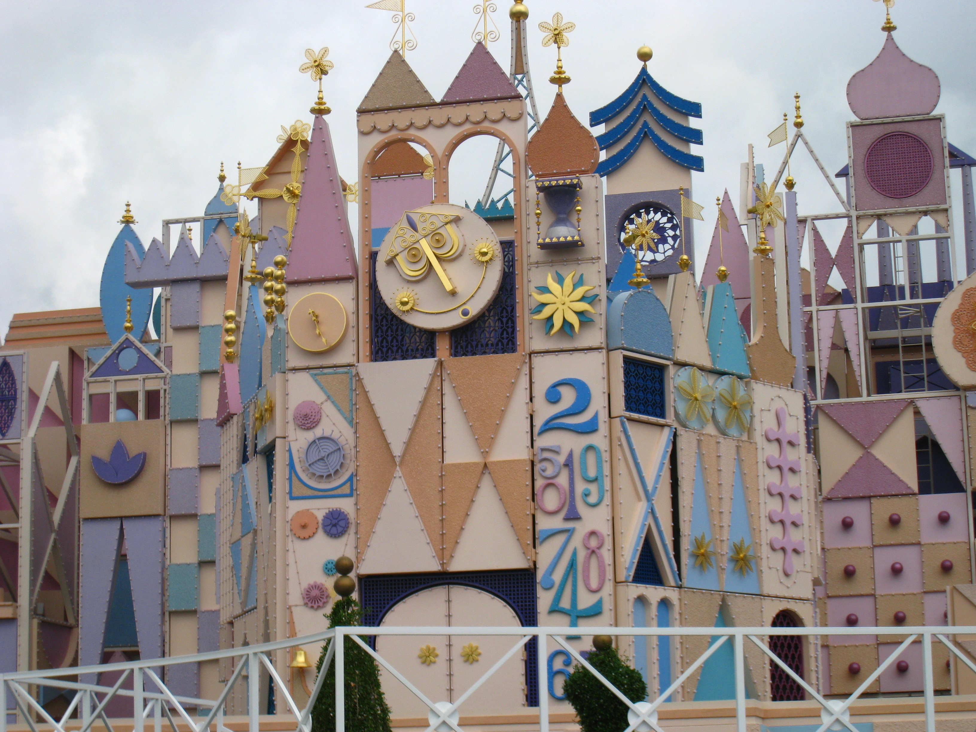 中文（香港）: "it's a small world" at Hong Kong Disneyland